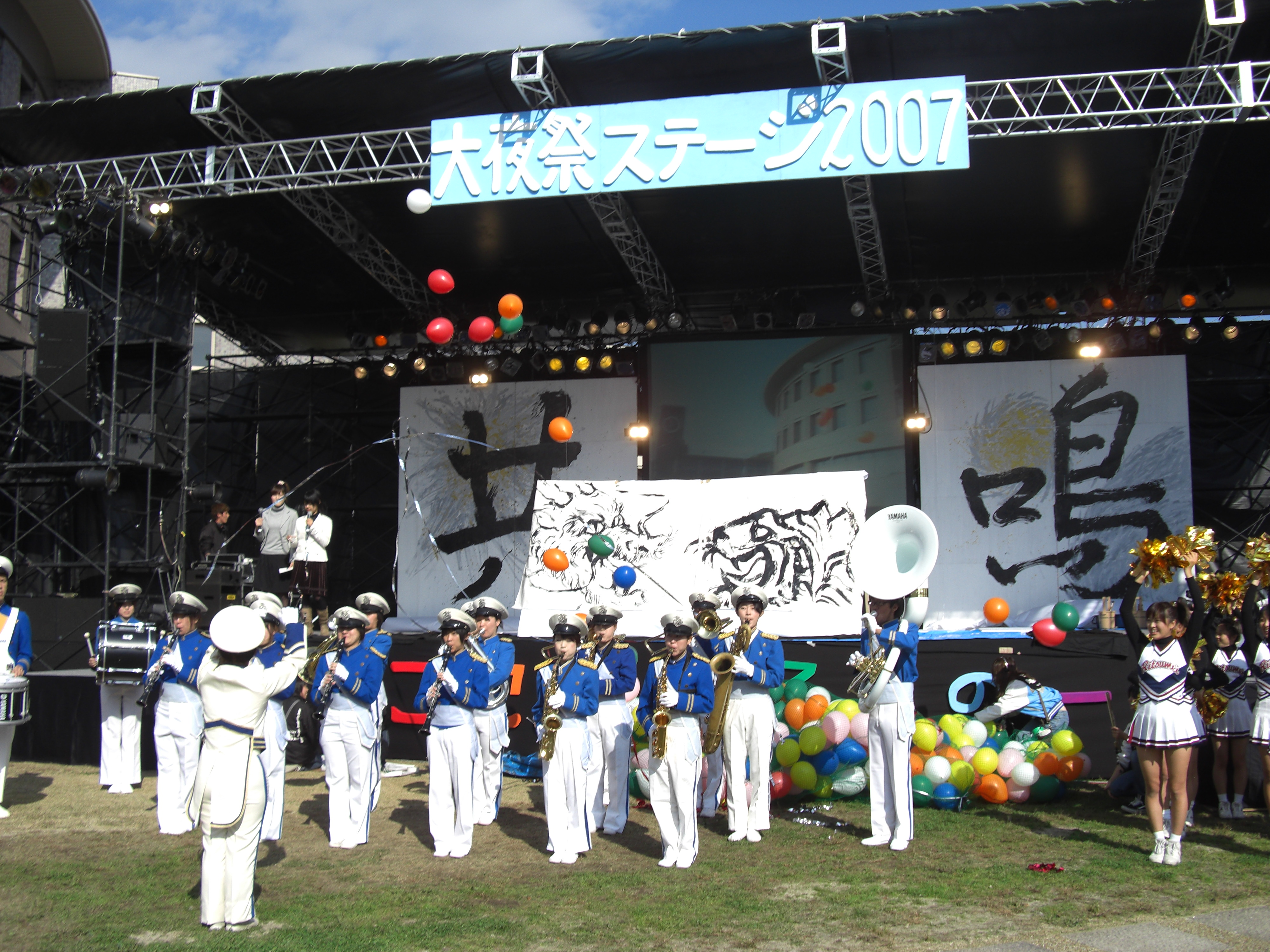 Ritsumeikan University Festival,Tojiinkitamachi Kita-ku Kyoto-City JAPAN.